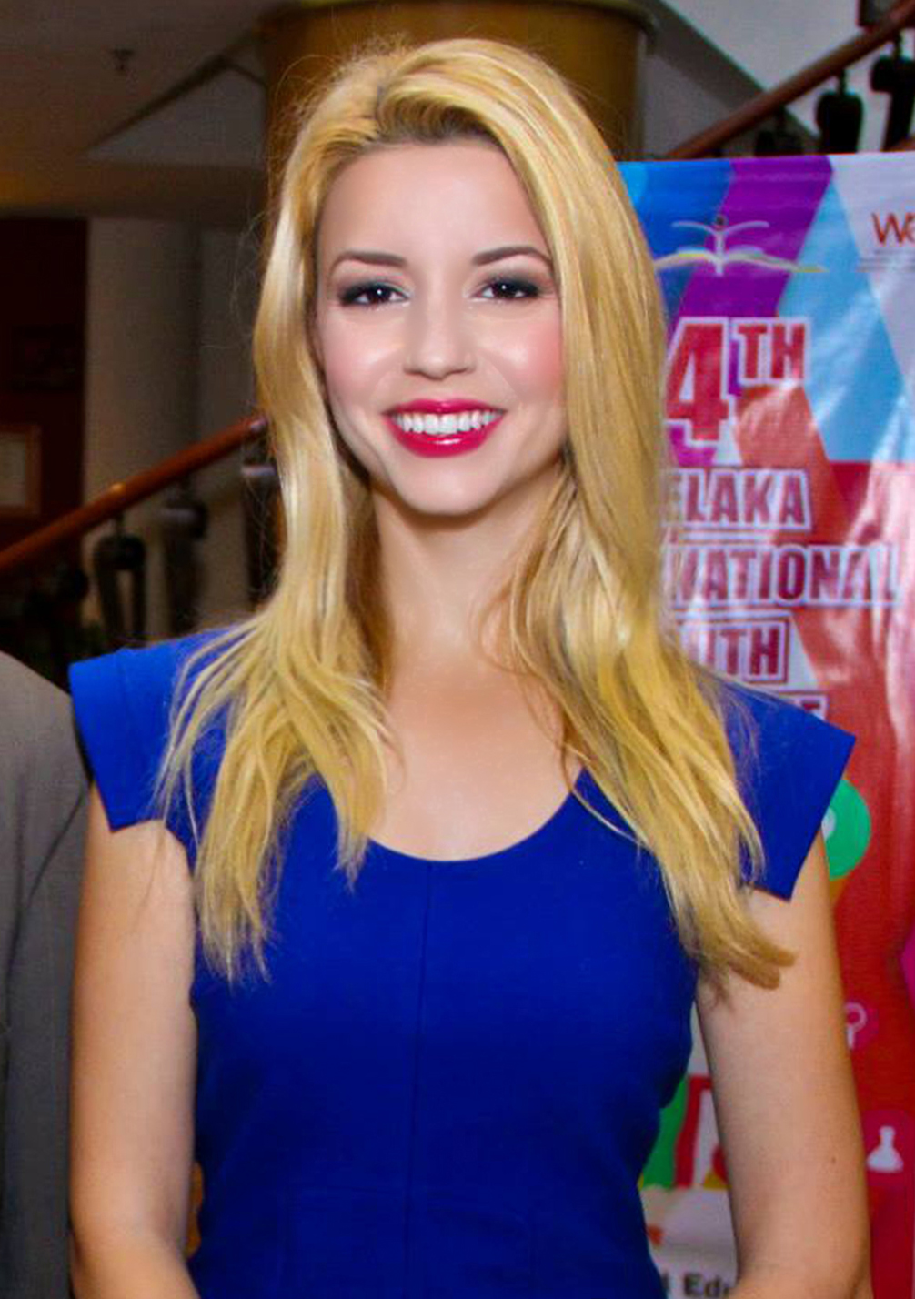 Masiela Lusha as Goodwill Ambassador of World Assembly of Youth in 2014